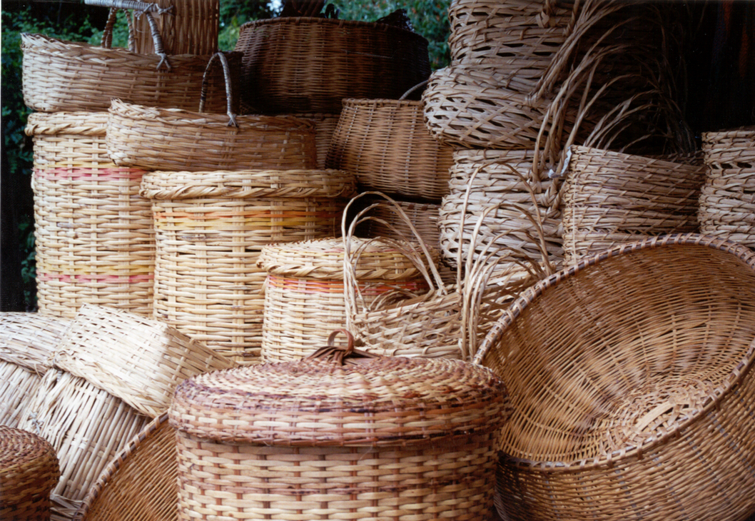 Baskets